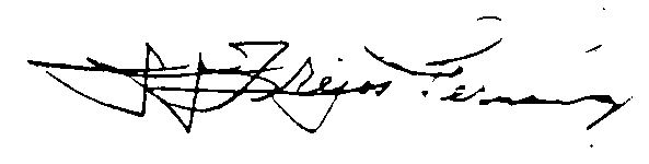 Signature of José Joaquín Trejos Fernández, President of Costa Rica 1966-1970.